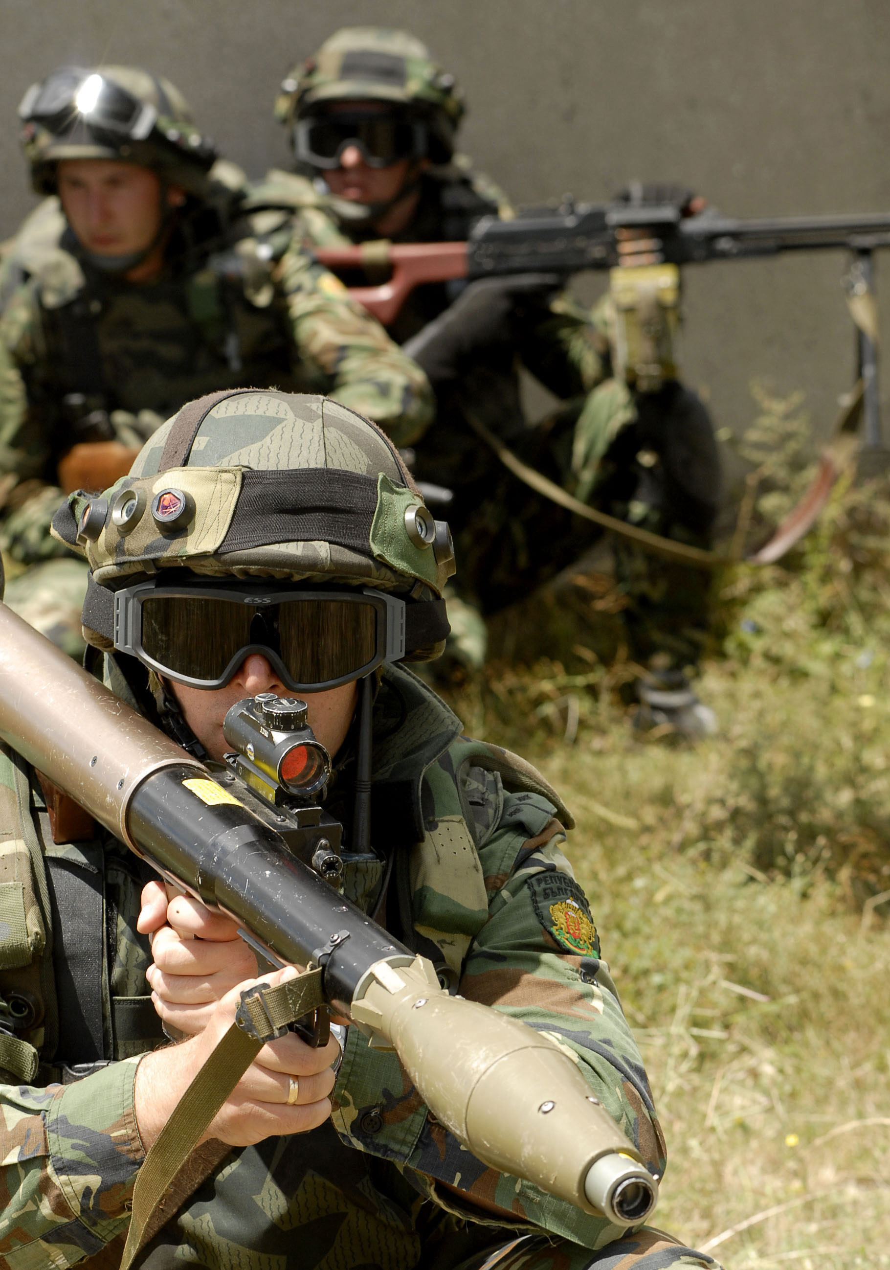 A Bulgarian Soldier scans the battlefiled in front of him with his RPG-7 rocket propelled grenade launcher during a Military Operations in Urban terrain training at the Novo Selo Training Area, Bulgaria. The MOUT site is a major training site for the tri-lateral exercise Immediate Response 06 involving Soliders from Bulgaria, Romania and the U.S. 17-21 July 2006. NOTE: RPG-7 Pictured is a training M.I.L.E.S. version of the RPG-7 designed to fire an IR laser out the front and a smoke signature out the back for use in training exercises.(U.S.Army photo by Gary L. Kieffer) (Released)